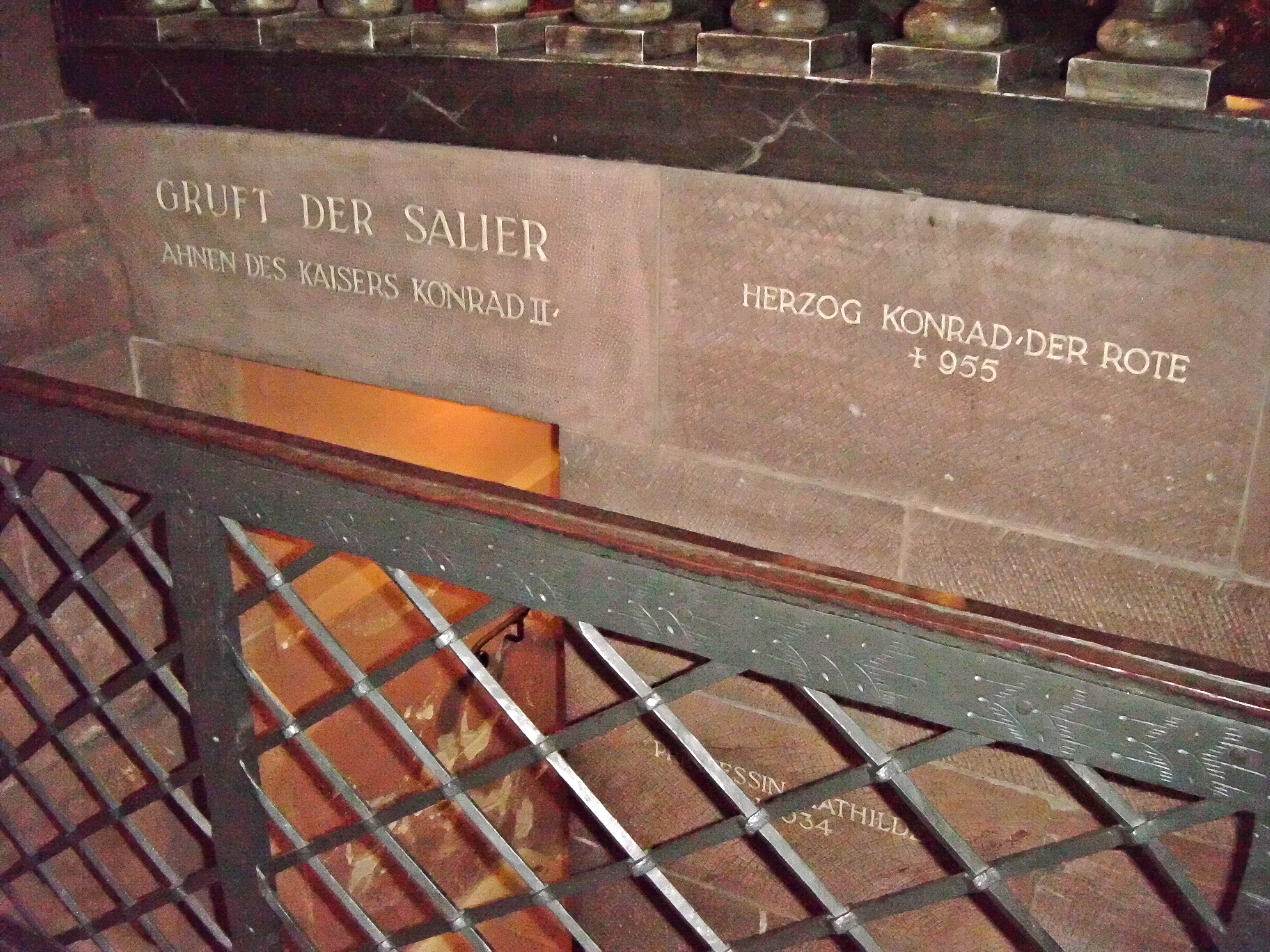 Eingang Saliergruft, Wormser Dom